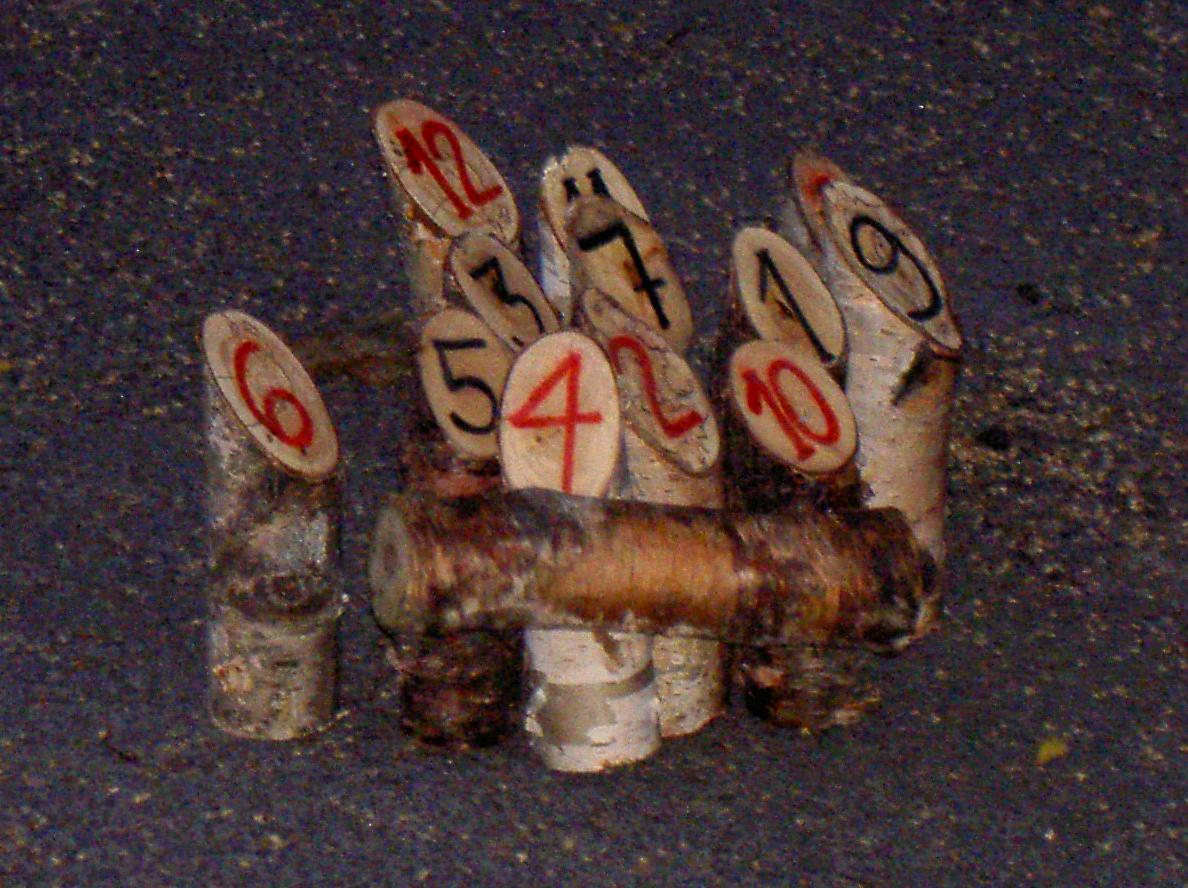 Throwing pin (aka mölkky) hitting the target pins on the opening throw of a mölkky game. Photographed by Teemu Mäki